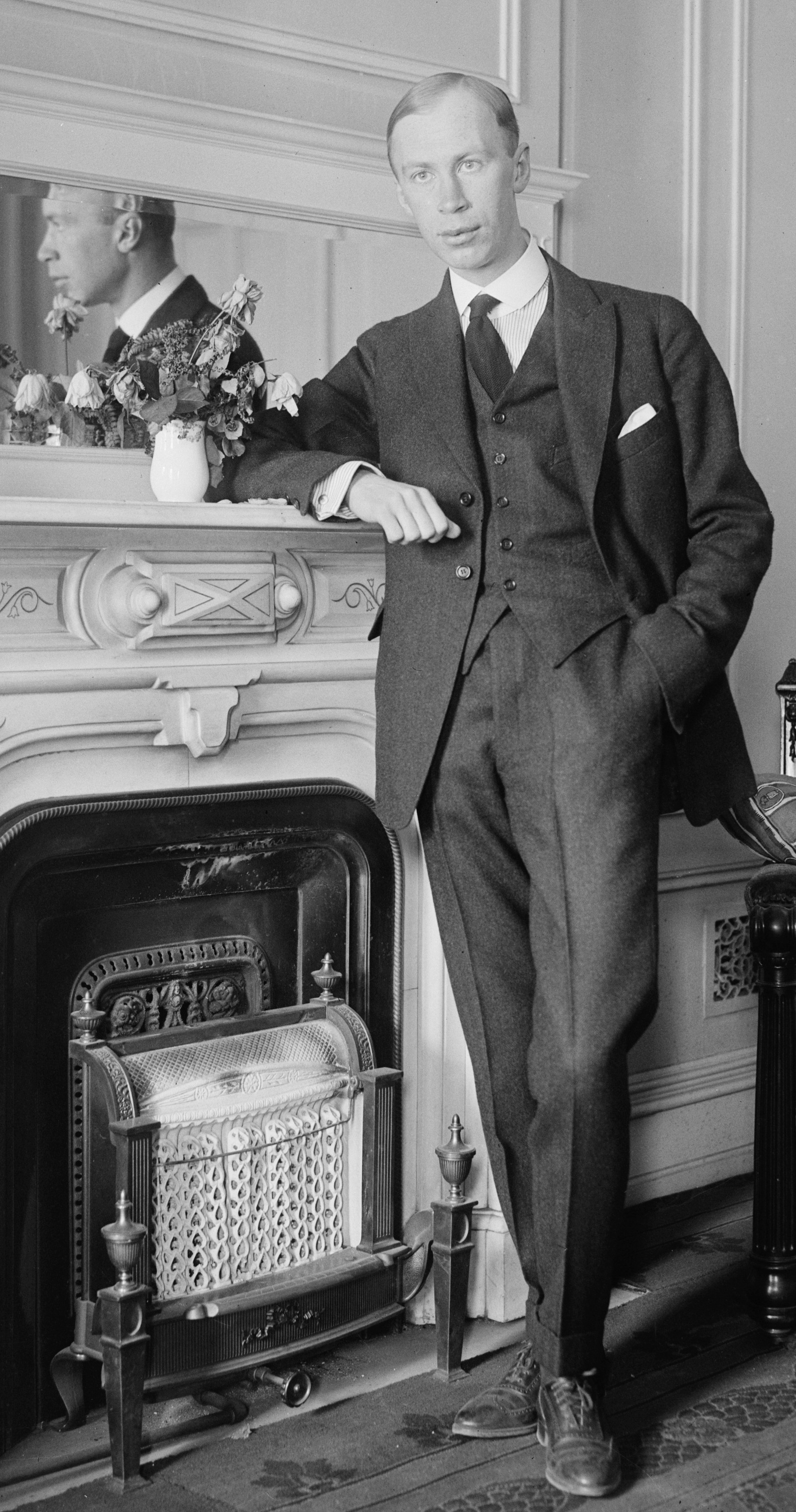 Russian composer Sergei Prokofiev (1891-1953)